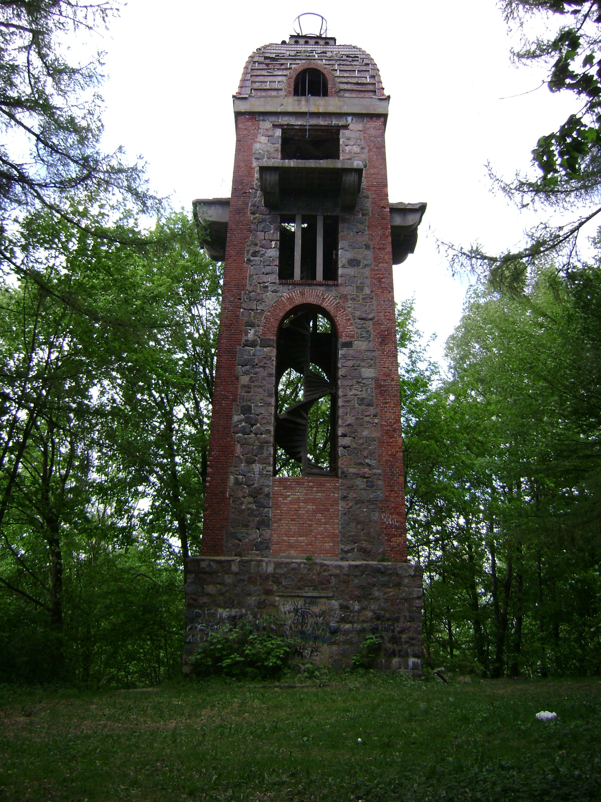 Świdwin Bismarck tower.